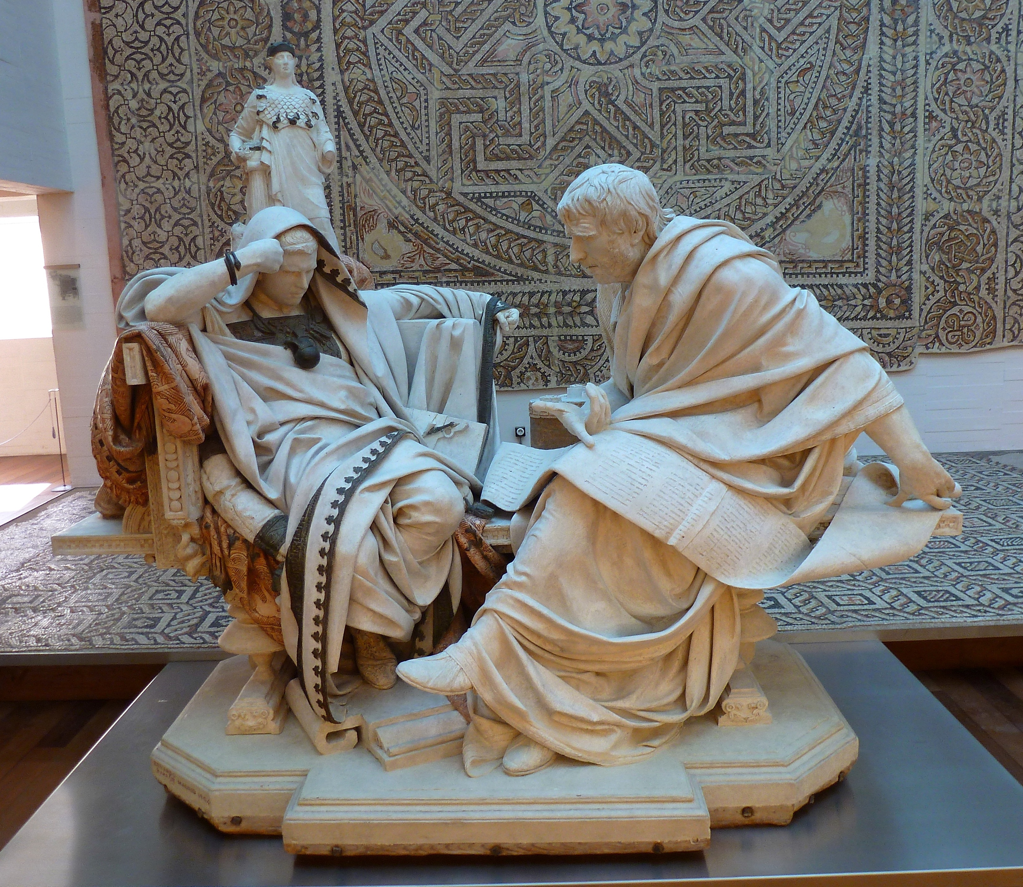 Preparatory plaster sculpture of Nero and Seneca. Awarded a first-prize medal at the National Fine Arts exhibition in Madrid in 1904. Barrón never produced a final version of it, in bronze or marble. It was exhibited in Cordoba Town Hall for many years before being returned to the Museo del Prado for restoration. (A modern bronze copy is now at the Glorieta Llanos del Pretorio in Cordoba.)